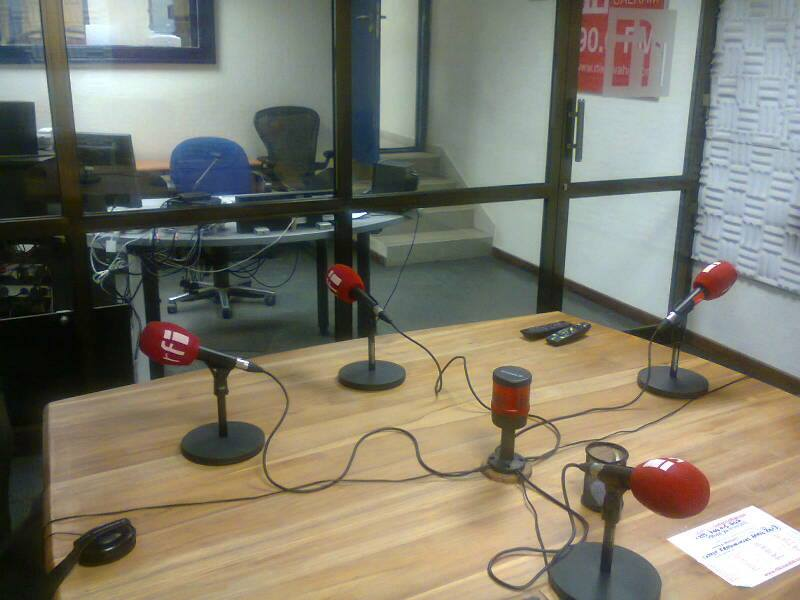 Radio France Internationale studio in Dar es salaam, Tanzania